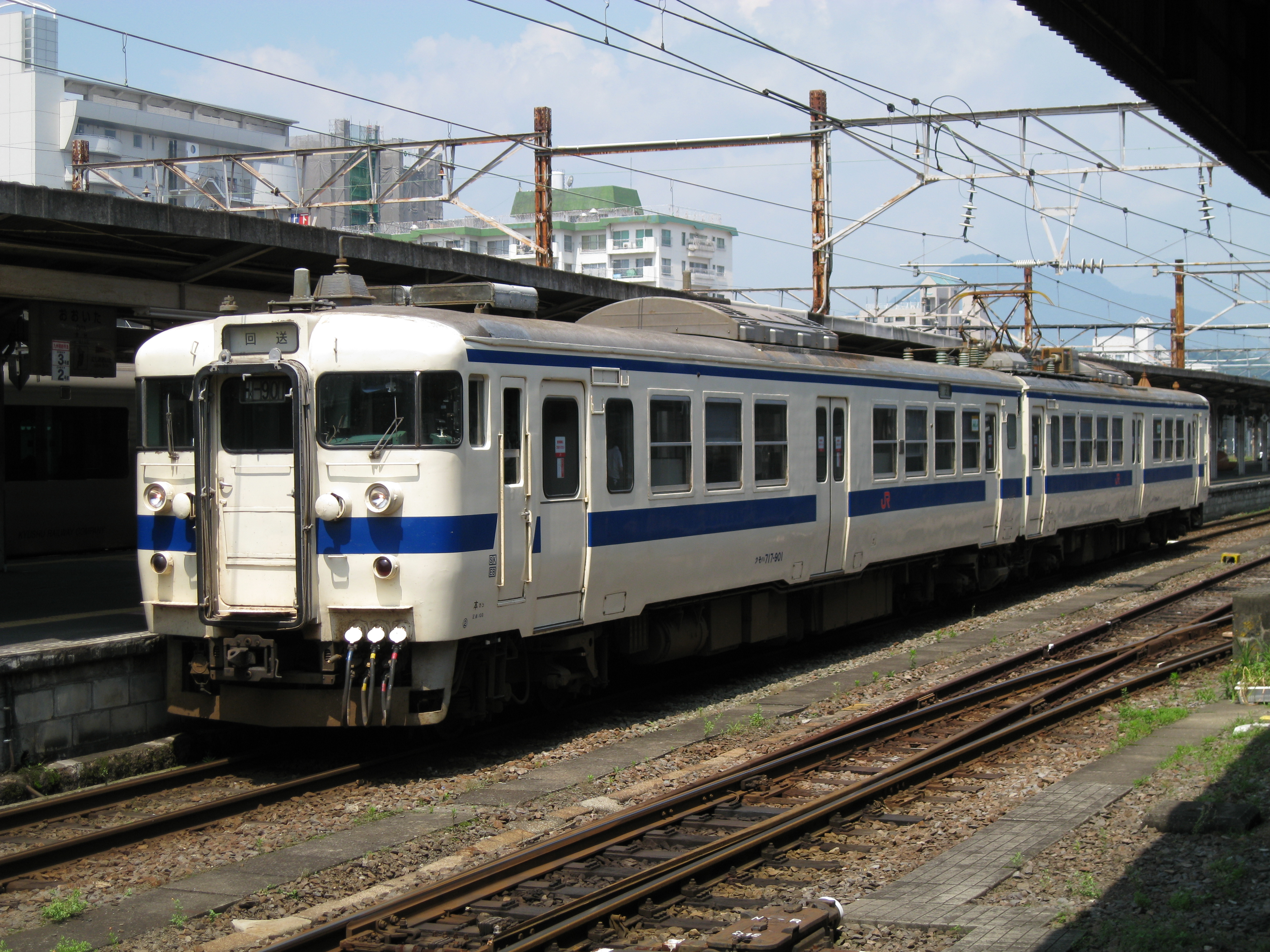 JR Kyushu 717-900 series EMU set HK901 at Oita Station in Oita, Japan